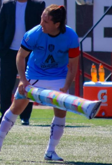 Mexican player Daniel Alcántar